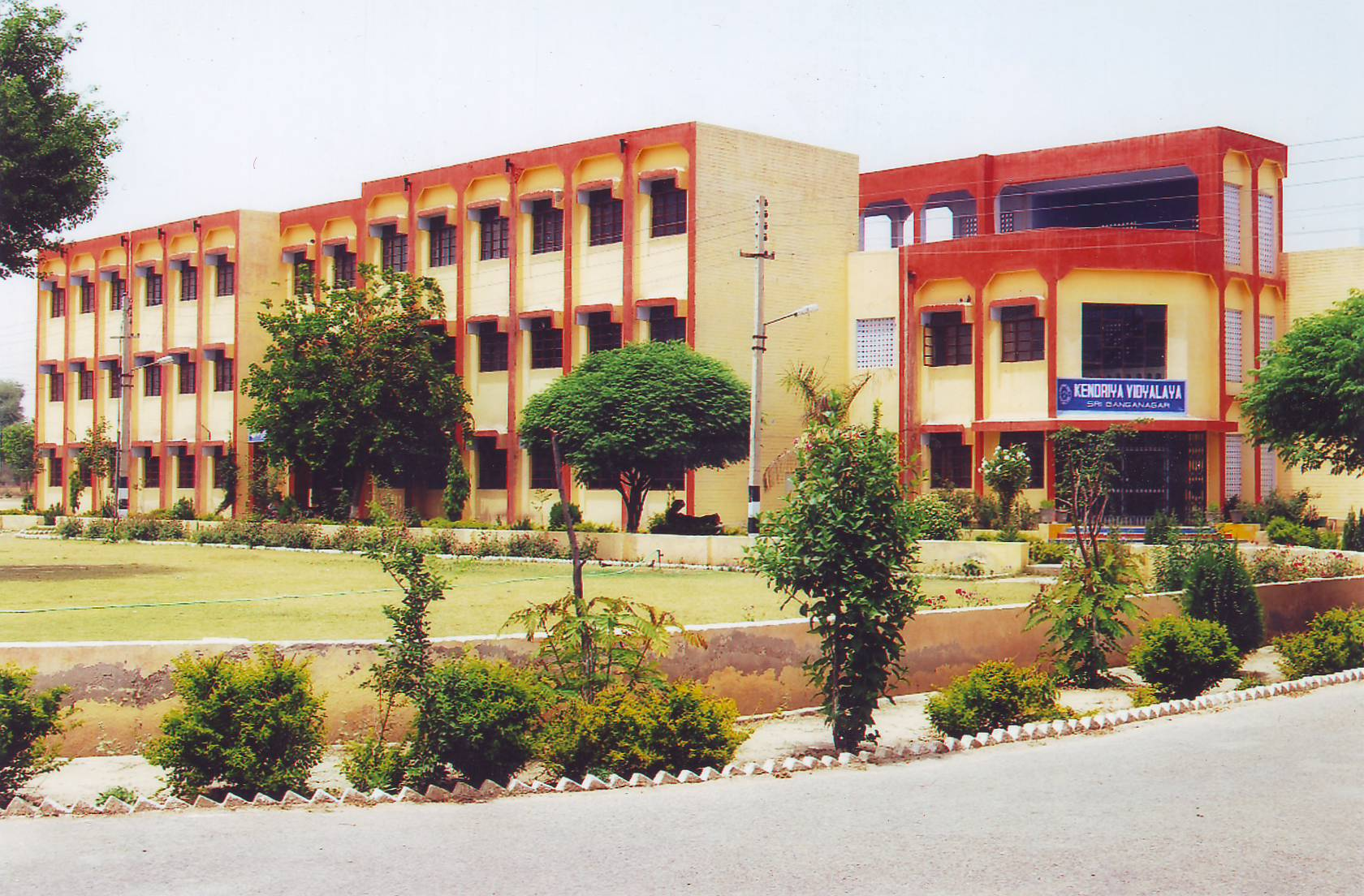 Kendriya Vidyalaya in Sriganganagar City.